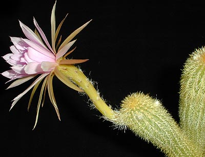 Arthrocereus rondonianus